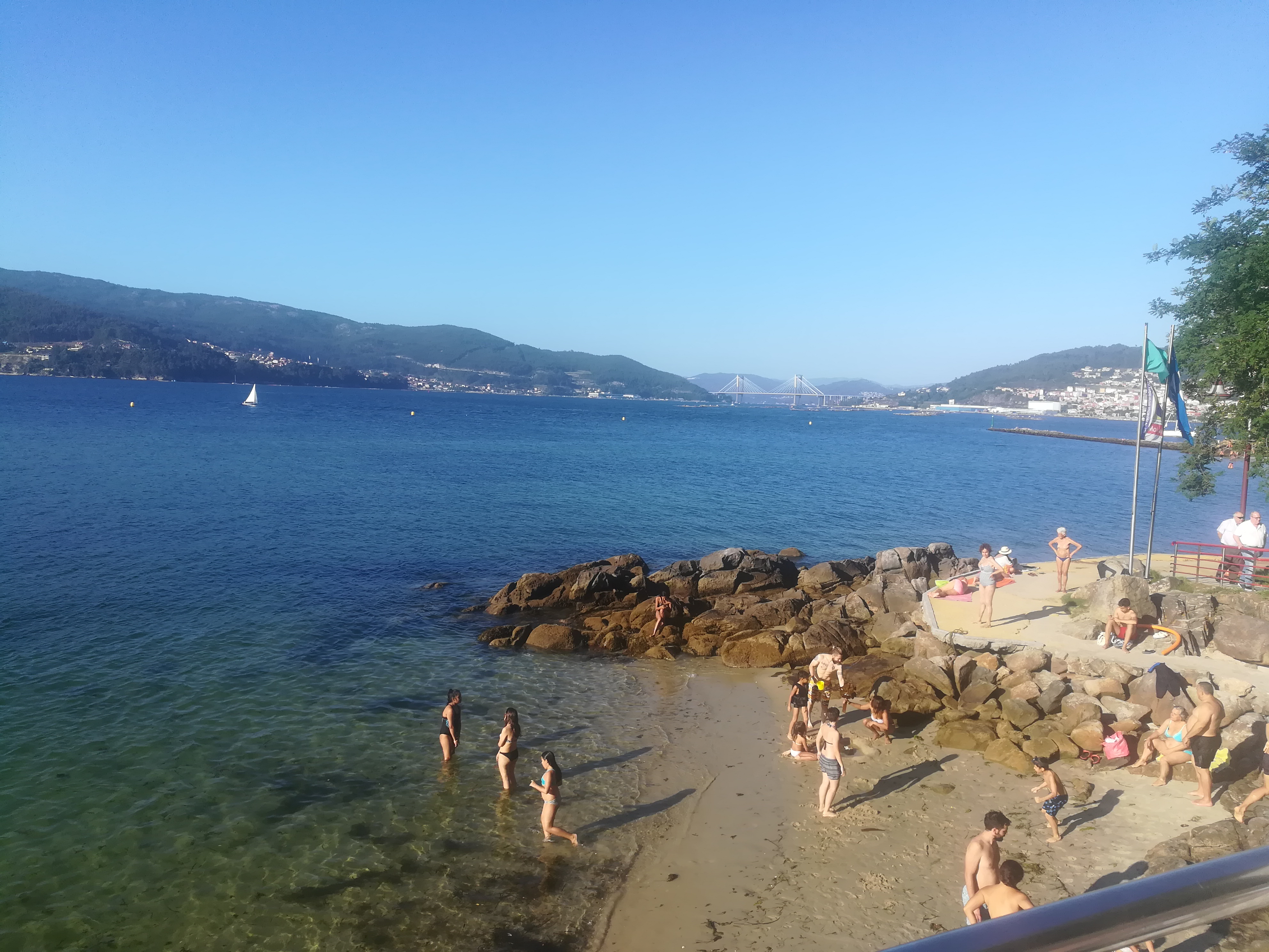 Beach A Punta (Vigo, Spain).